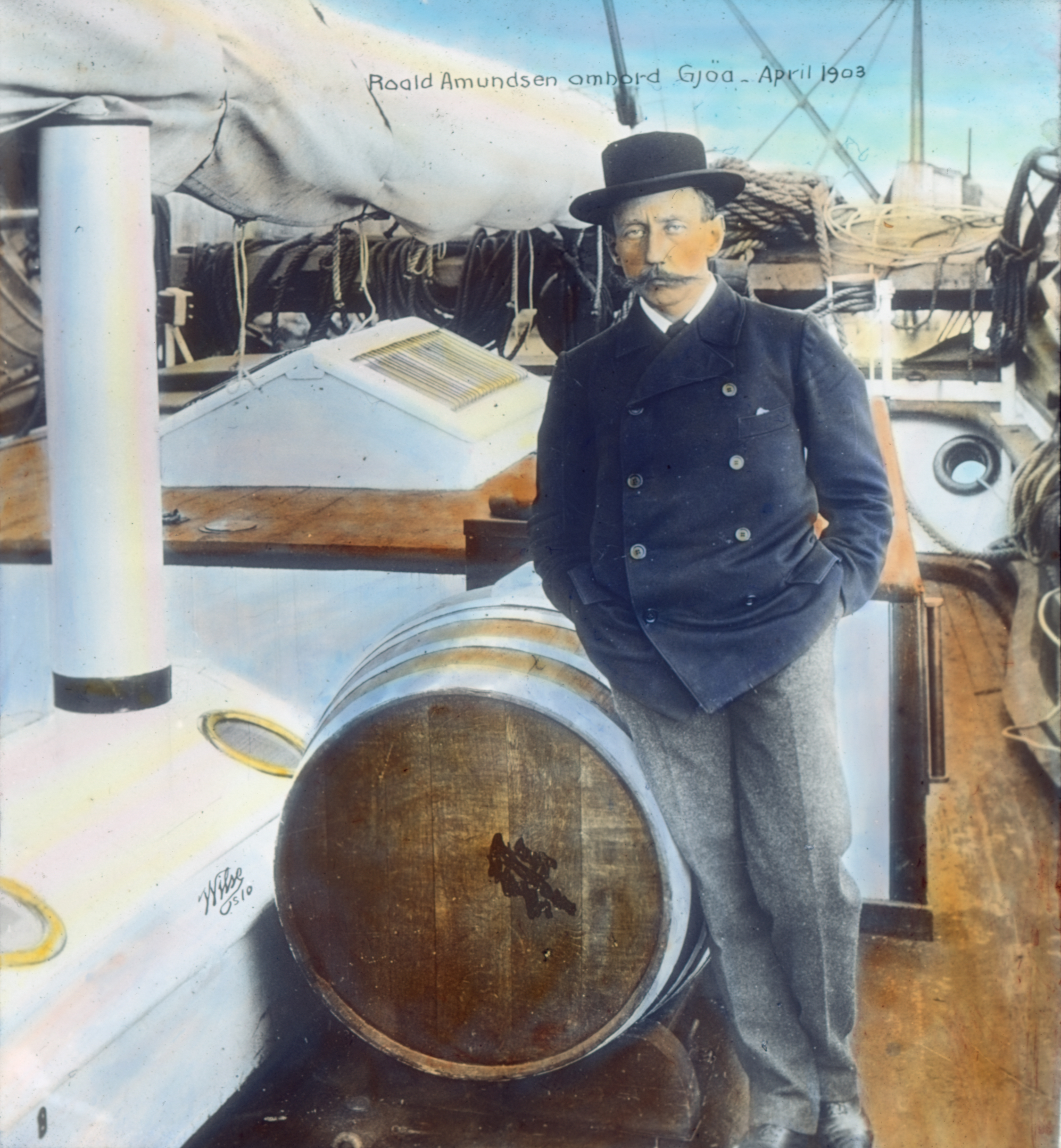 Håndkolorert dias. Roald Amundsen ombord på Gjøa. I bildet står påskriften "Roald Amundsen ombord Gjöa. April 1903."